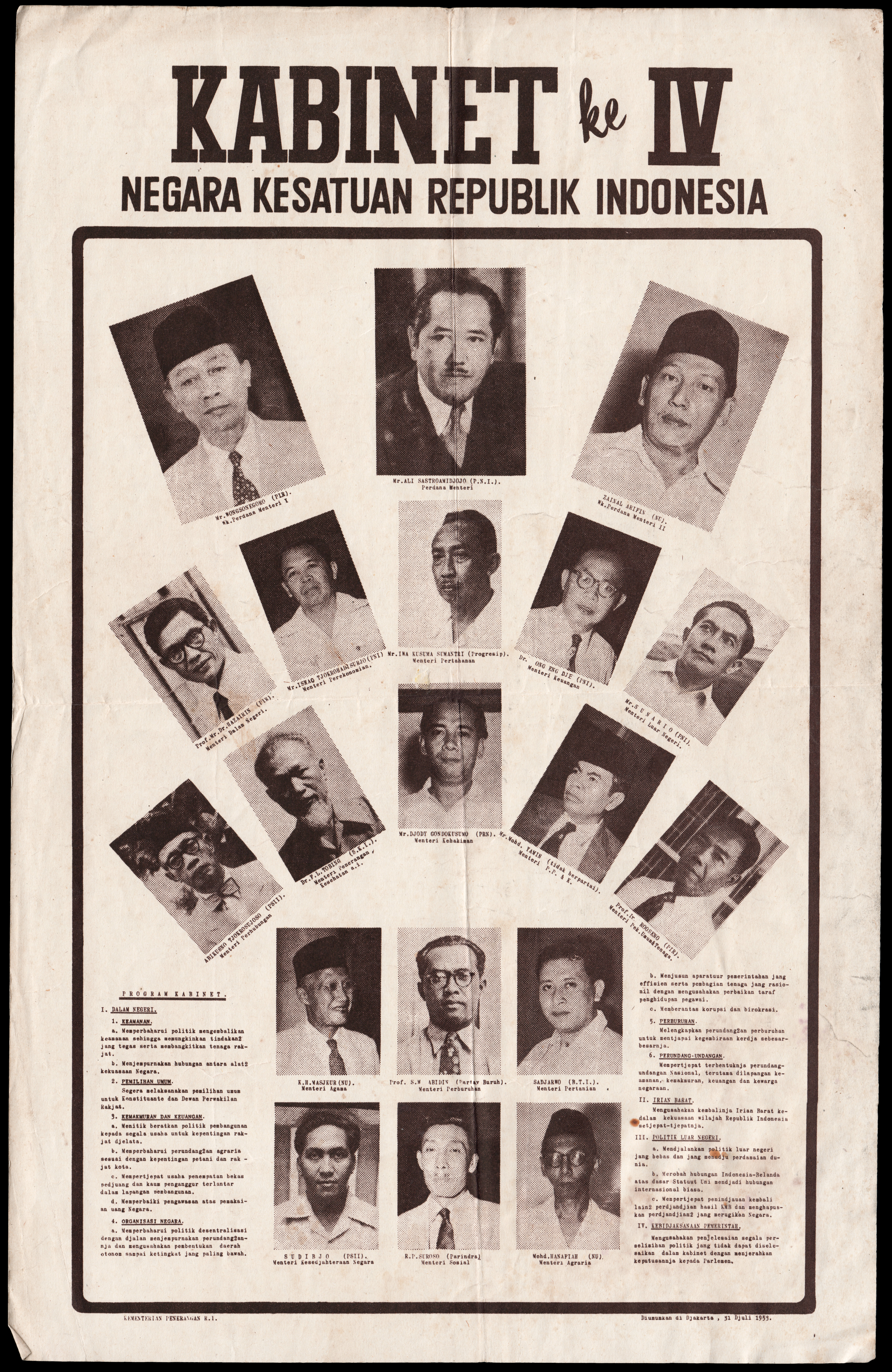 Poster showing the first Ali Sastroamidjojo Cabinet of Indonesia, which lasted from 1 August 1953 to 24 July 1955. Scanned at 300 PPI.